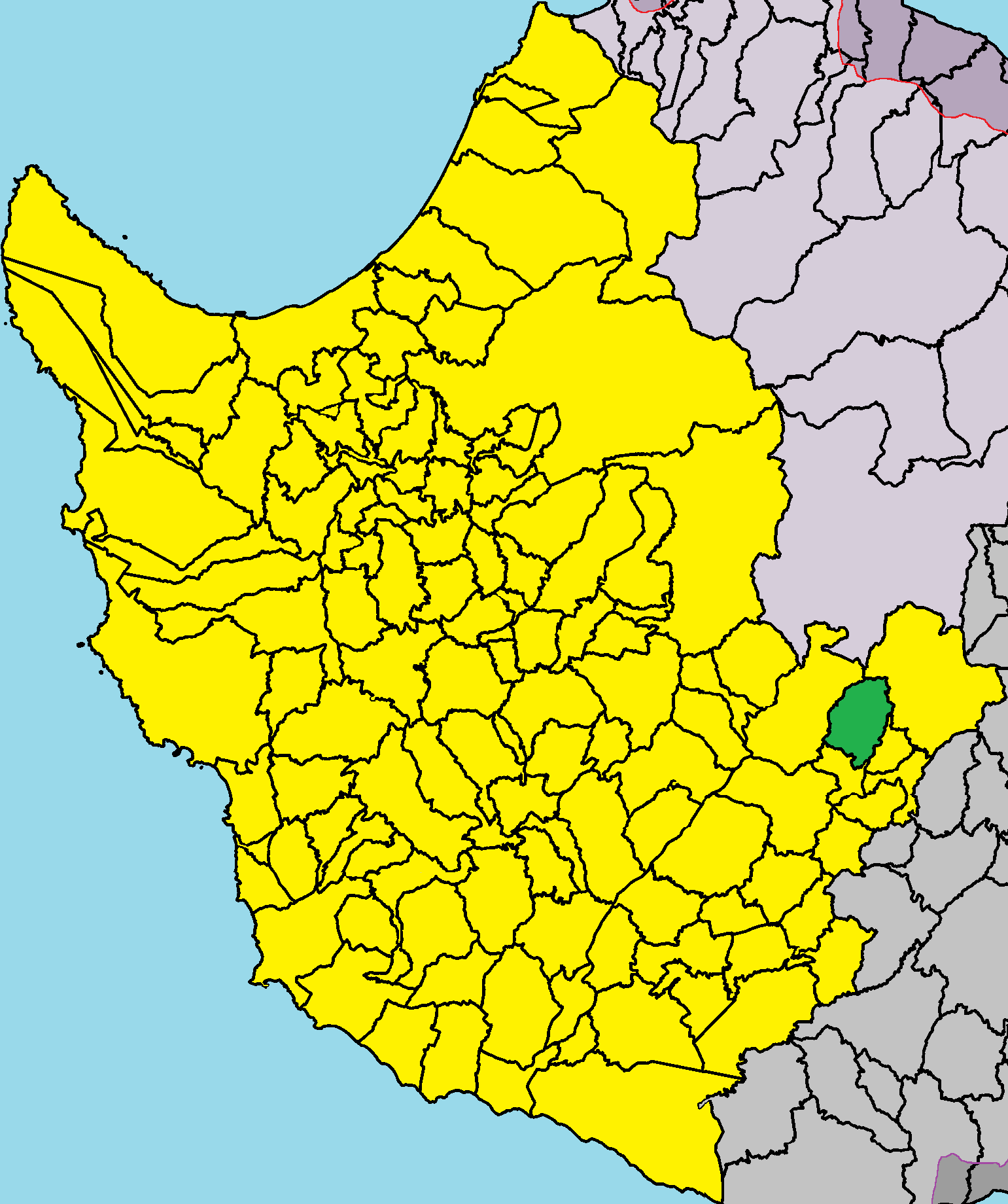 Arminou in Paphos District.